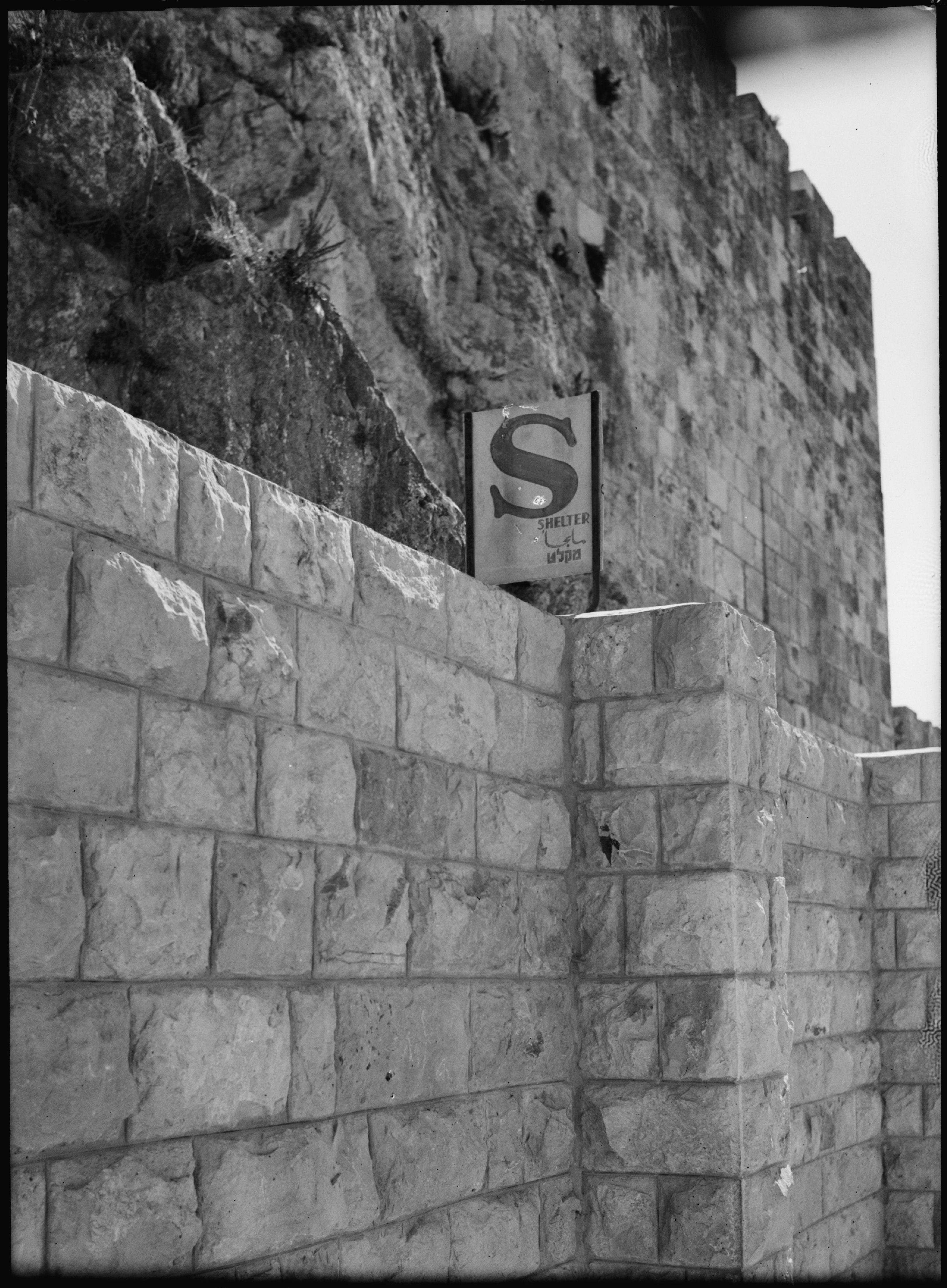 Title: Air raid shelter at Solomon's Quarries, 1945 Abstract/medium: G. Eric and Edith Matson Photograph Collection Physical description: 1 negative